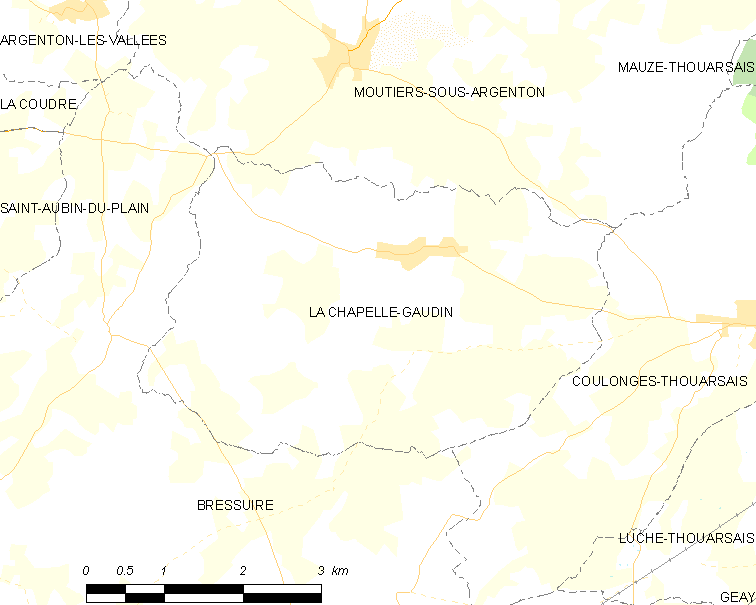 Map of French municipality La Chapelle-Gaudin